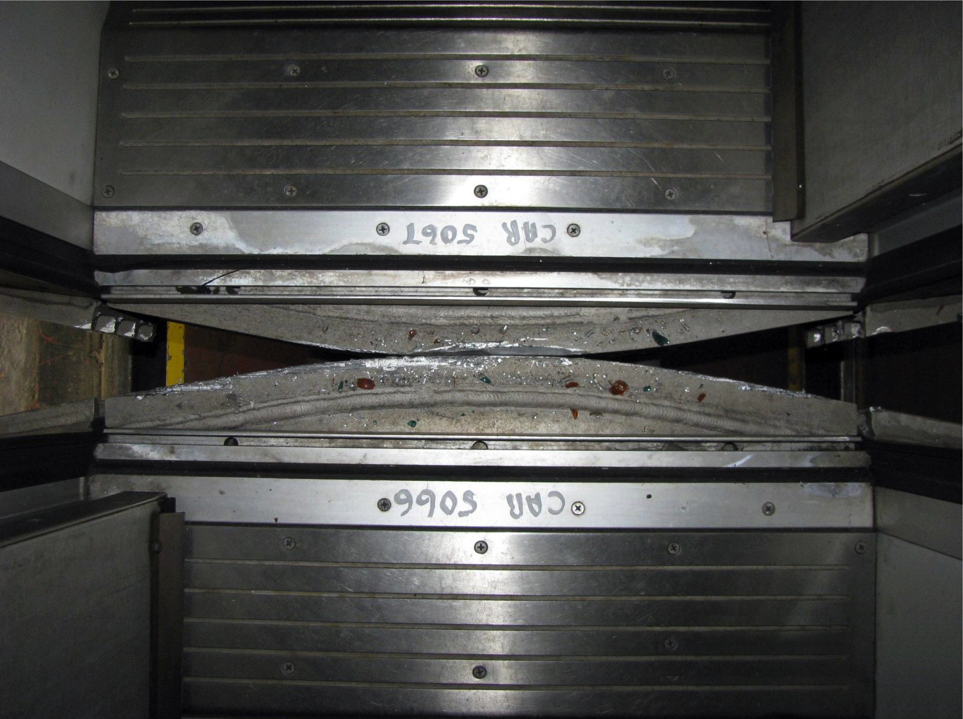 Original caption: Post-recovery, car # 5066, interior view, carbody end-door at the rear (aft) end of the railcar, showing, from above, the engagement of the anticlimber element of car # 5066 with the anti-climber element of car # 5067. NTSB Docket Crashworthiness Factual Report – Addendum # 2, Descriptions of Photographs of the Crashworthiness Investigation